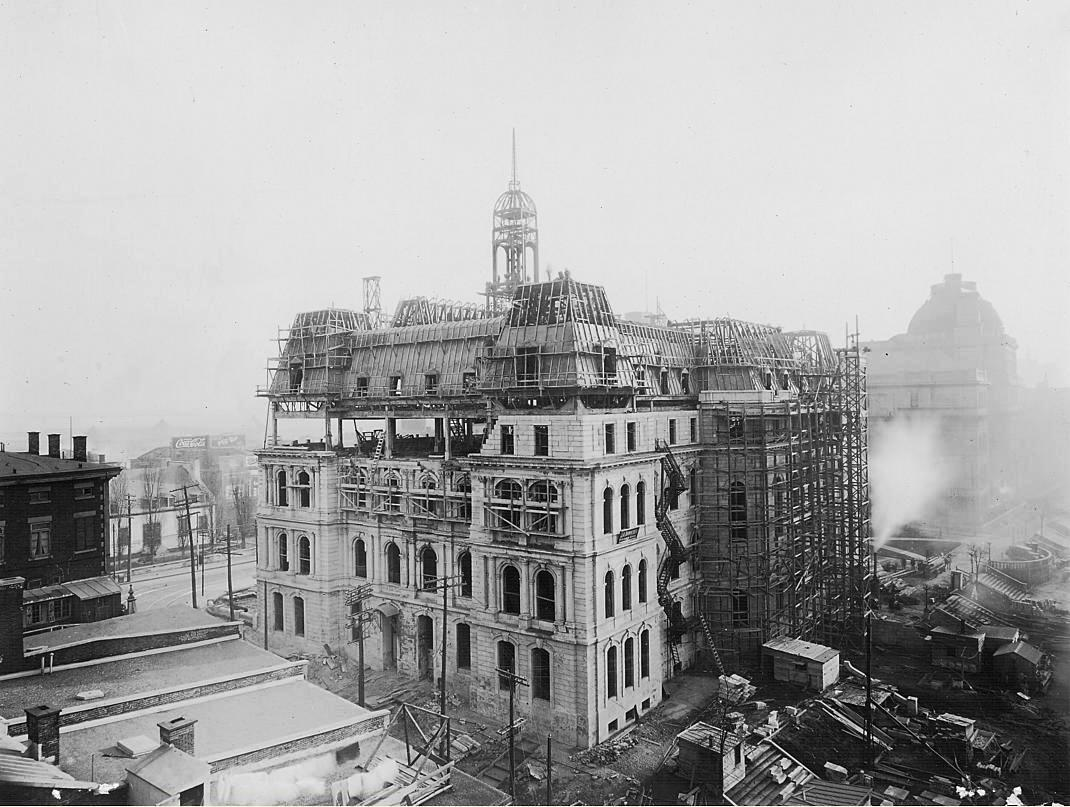 Montreal City Hall rebuilding